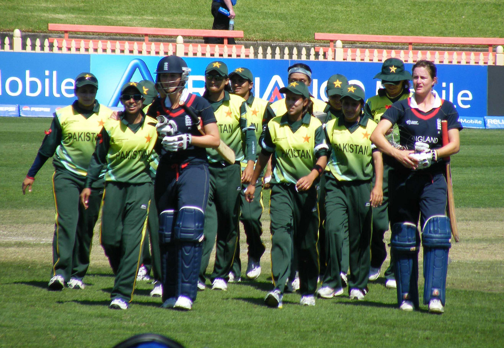 England and Pakistan - ICC Women's Cricket World Cup, Sydney, March 2009.